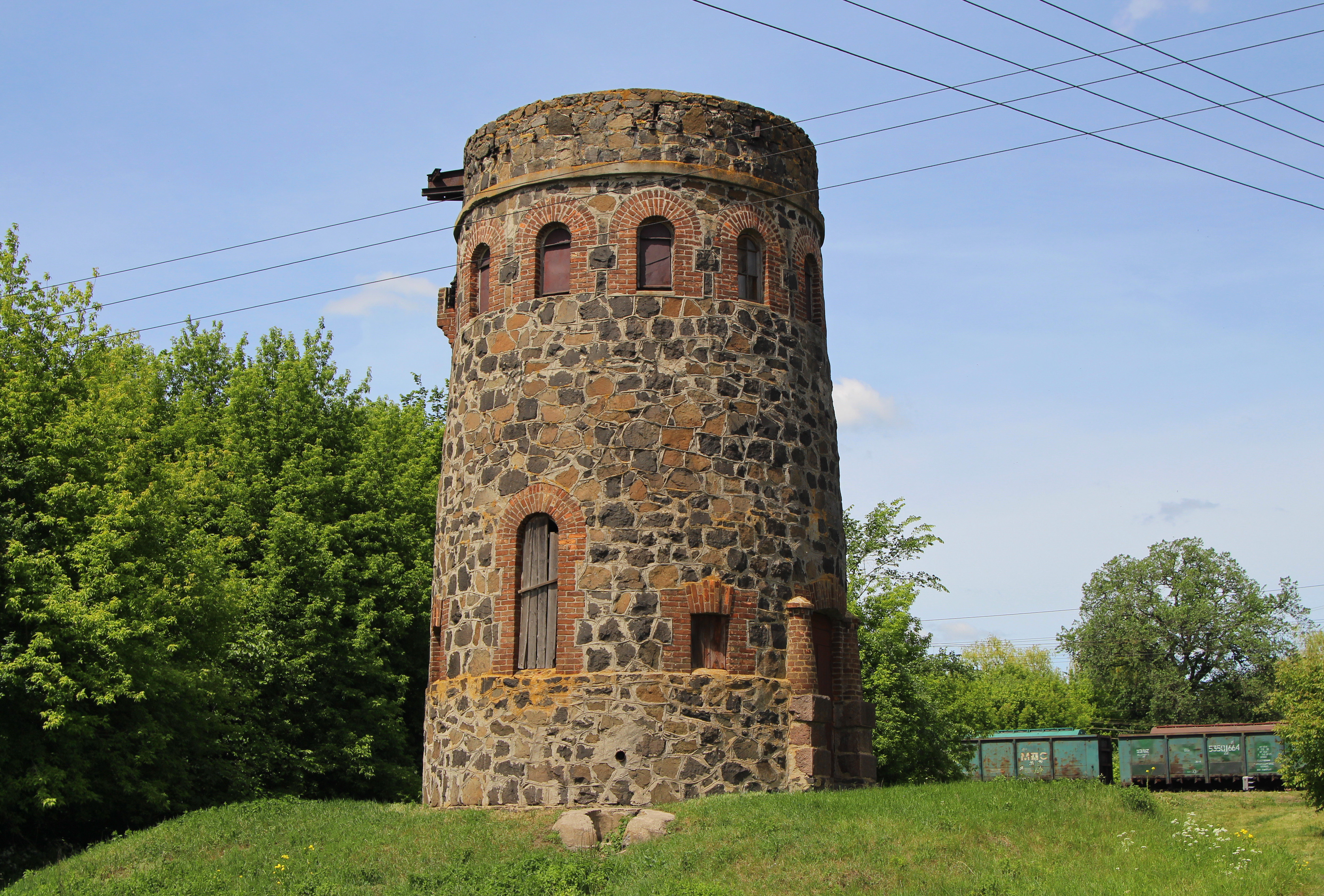 Water tower in Zhovtneve, Ruzhyn Raion, Ukraine